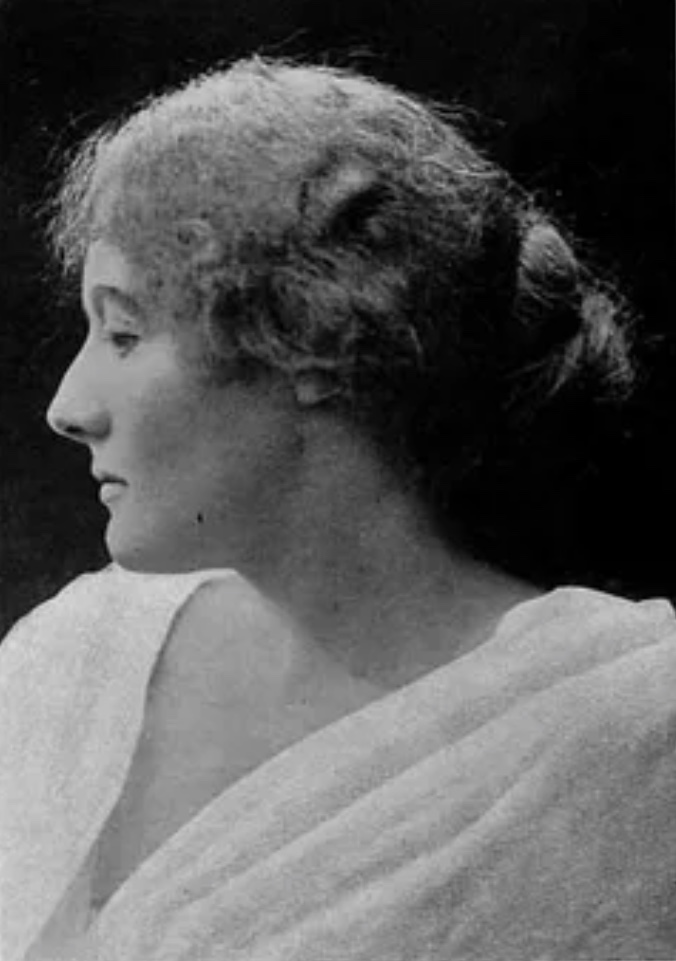 Photograph of the actress Hetta Bartlett (1877-1947) - Mayall & Co 1900 - reproduced in ‘The Sketch’ August 1900